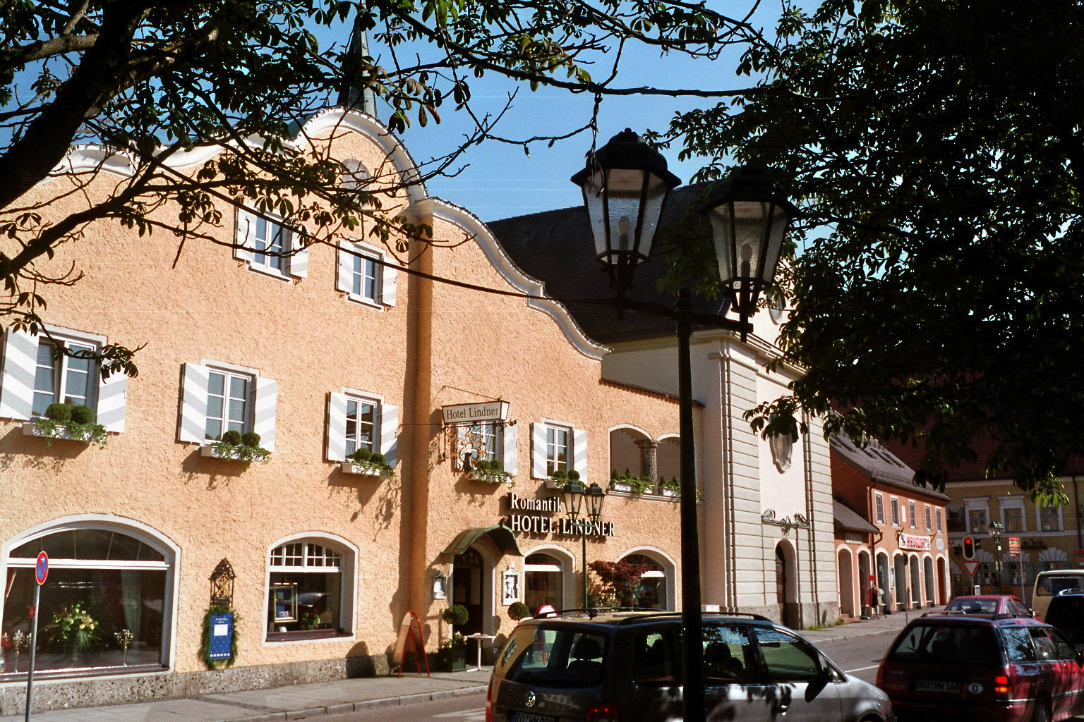 Das ehemalige Schloss Prantshausen in Bad Aibing, Bayern. The former Prantshausen castle in Bad Aibling, Bavaria, Germany.